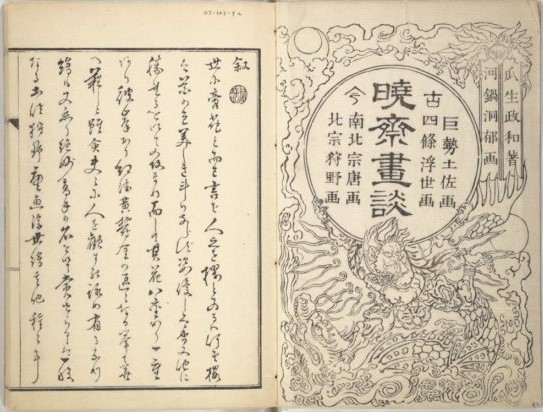 Titelpage of a book by Kyosai